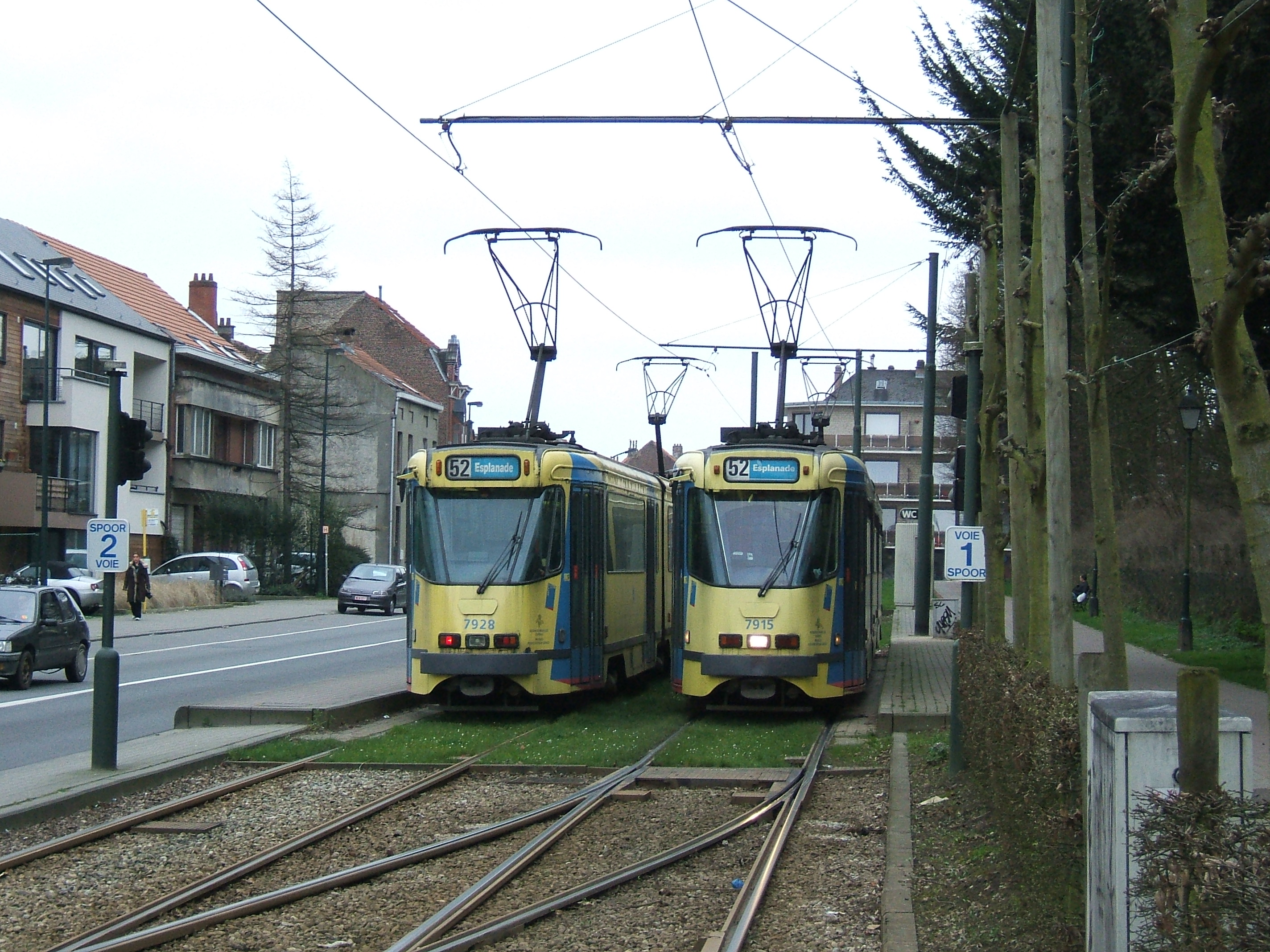 Tram 52 terminus in Drogenbos